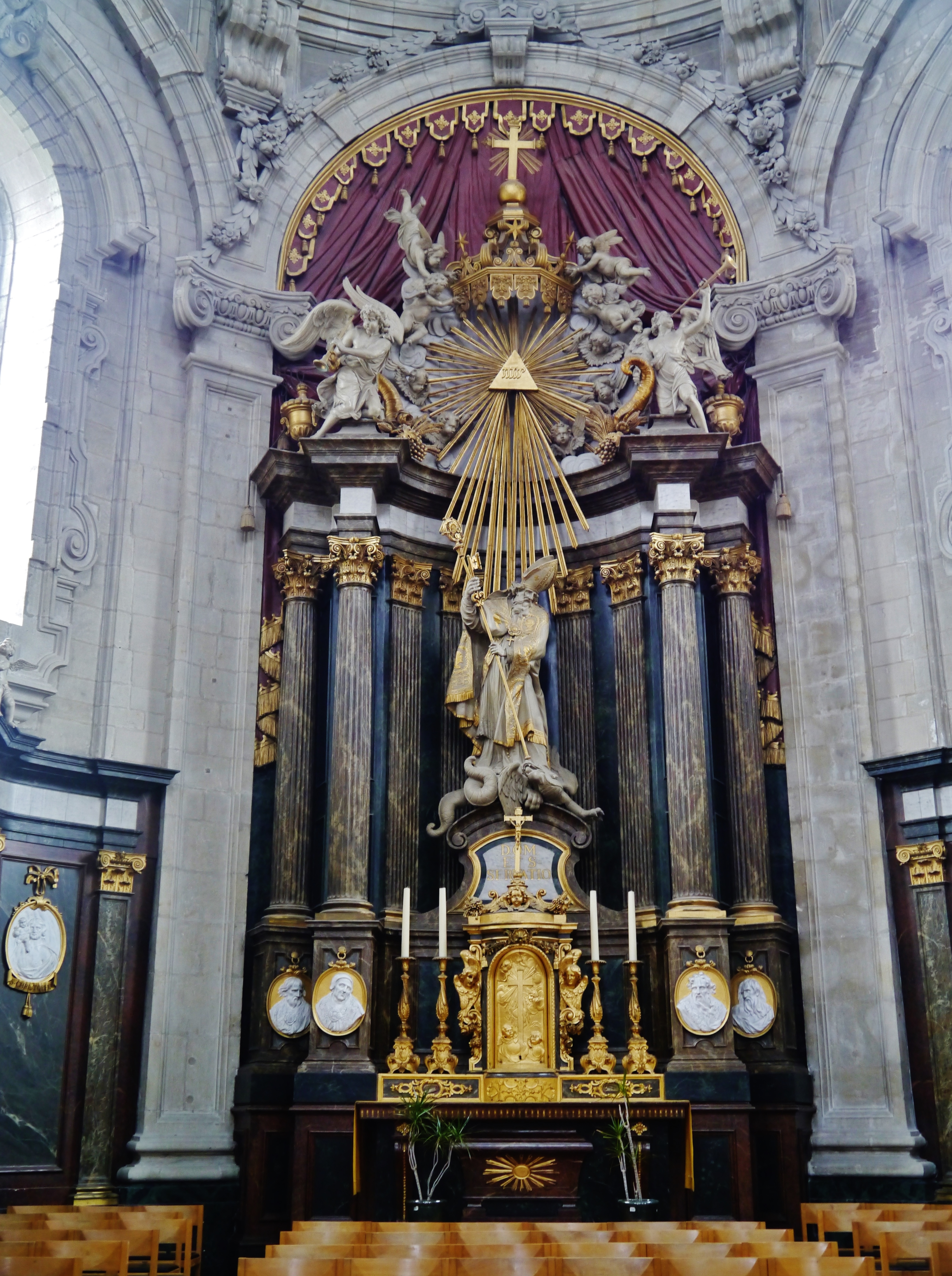 Side Altar of the Basilica St. Servatius, Grimbergen, Province of Flemish Brabant, Flanders, Belgium